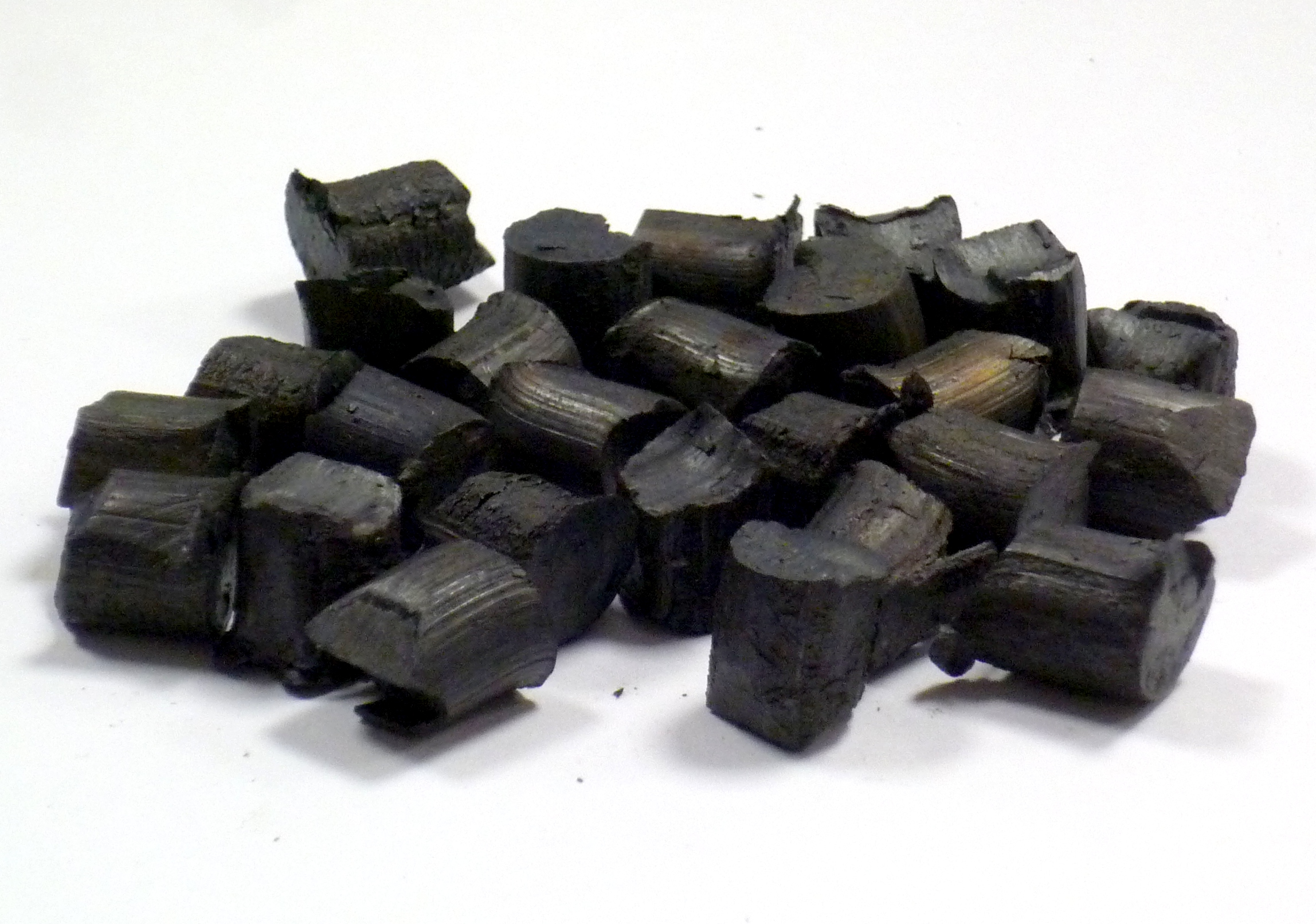 a handful of Mischmetal cut pieces